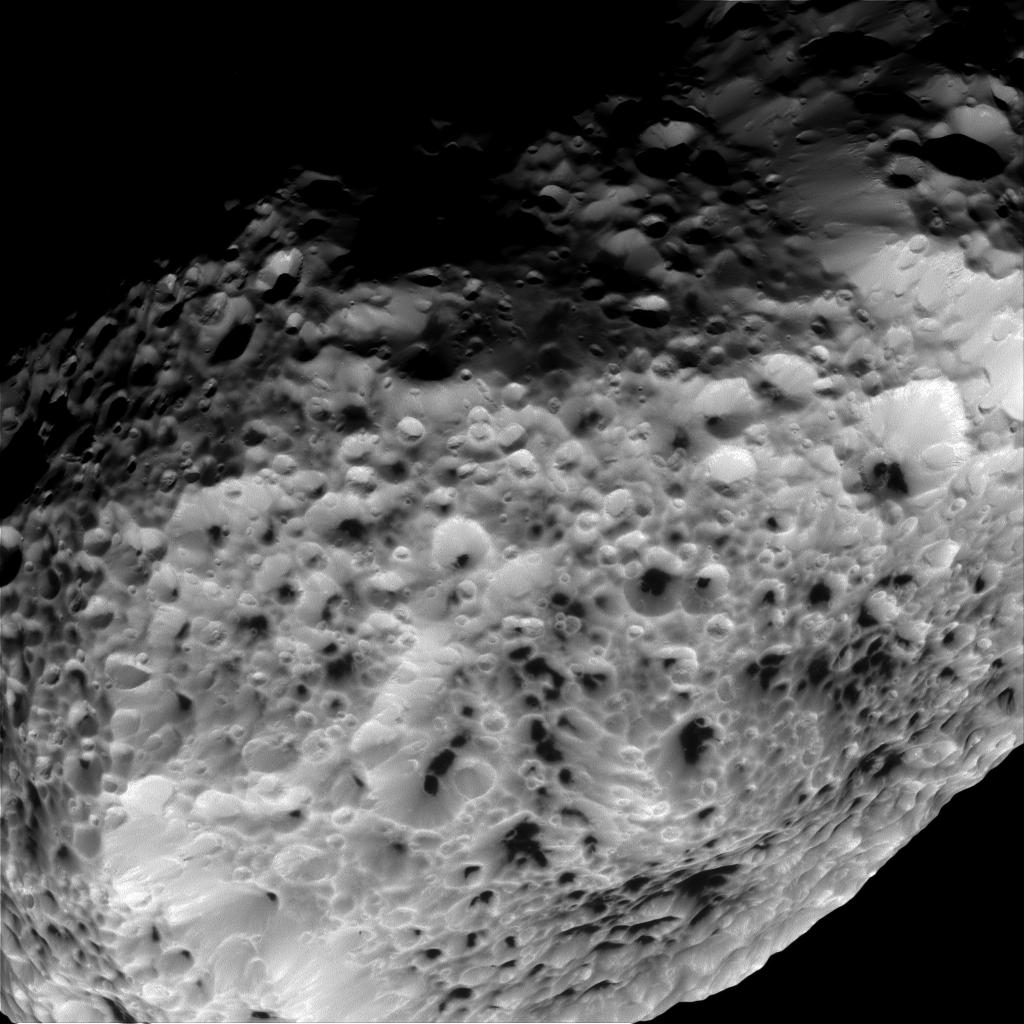 PIA17194: Spongy Surface of Hyperion NASA's Cassini imaging scientists processed this view of Saturn's moon Hyperion, taken during a close flyby on May 31, 2015. This flyby marks the mission's final close approach to Saturn's largest irregularly shaped moon. North on Hyperion is up and rotated 34 degrees to the left. The image was taken in visible light with the Cassini spacecraft narrow-angle camera on May 31, 2015. The view was acquired at a distance of approximately 24,000 miles (38,000 kilometers) from Hyperion and at a Sun-Hyperion-spacecraft, or phase, angle of 46 degrees. Image scale is 145 feet (230 meters) per pixel. The Cassini mission is a cooperative project of NASA, ESA (the European Space Agency) and the Italian Space Agency. The Jet Propulsion Laboratory, a division of the California Institute of Technology in Pasadena, manages the mission for NASA's Science Mission Directorate, Washington. The Cassini orbiter and its two onboard cameras were designed, developed and assembled at JPL. The imaging operations center is based at the Space Science Institute in Boulder, Colorado. For more information about the Cassini-Huygens mission visit and The Cassini imaging team homepage is at